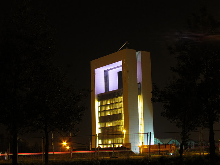 Innova Tower Venlo